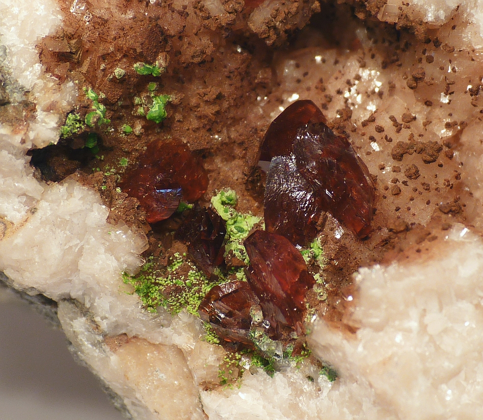 Green nickelaustinite with roselite. Field of view 3.5 cm. From: Aït Ahmane, Bou Azzer District, Tazenakht, Ouarzazate Province, Drâa-Tafilalet Region, Morocco.